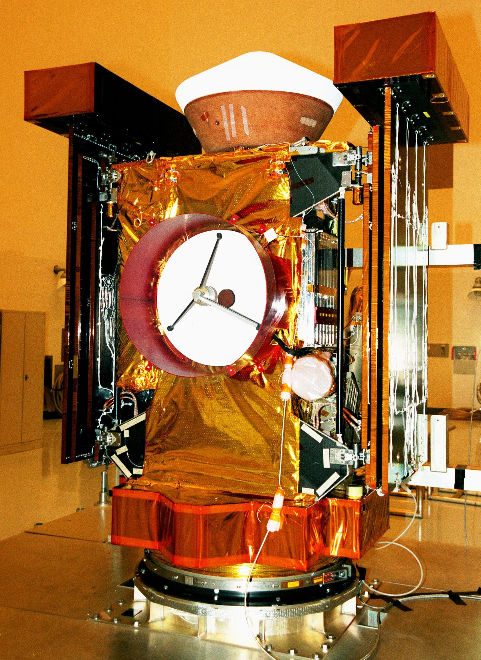 The Stardust spacecraft sits in the Payload Hazardous Service Facility waiting to undergo installation and testing of the solar arrays, plus final installation and testing of spacecraft instruments followed by an overall spacecraft functional test. At the top is the re-entry capsule. Built by Lockheed Martin Astronautics near Denver, Colo., for the Jet Propulsion Laboratory (JPL) and NASA, the spacecraft Stardust will use a unique medium called aerogel to capture comet particles flying off the nucleus of comet Wild 2 in January 2004, plus collect interstellar dust for later analysis. Stardust will be launched aboard a Boeing Delta 7426 rocket from Complex 17, Cape Canaveral Air Station, targeted for Feb. 6, 1999. The collected samples will return to Earth in the re-entry capsule to be jettisoned from Stardust as it swings by Earth in January 2006.